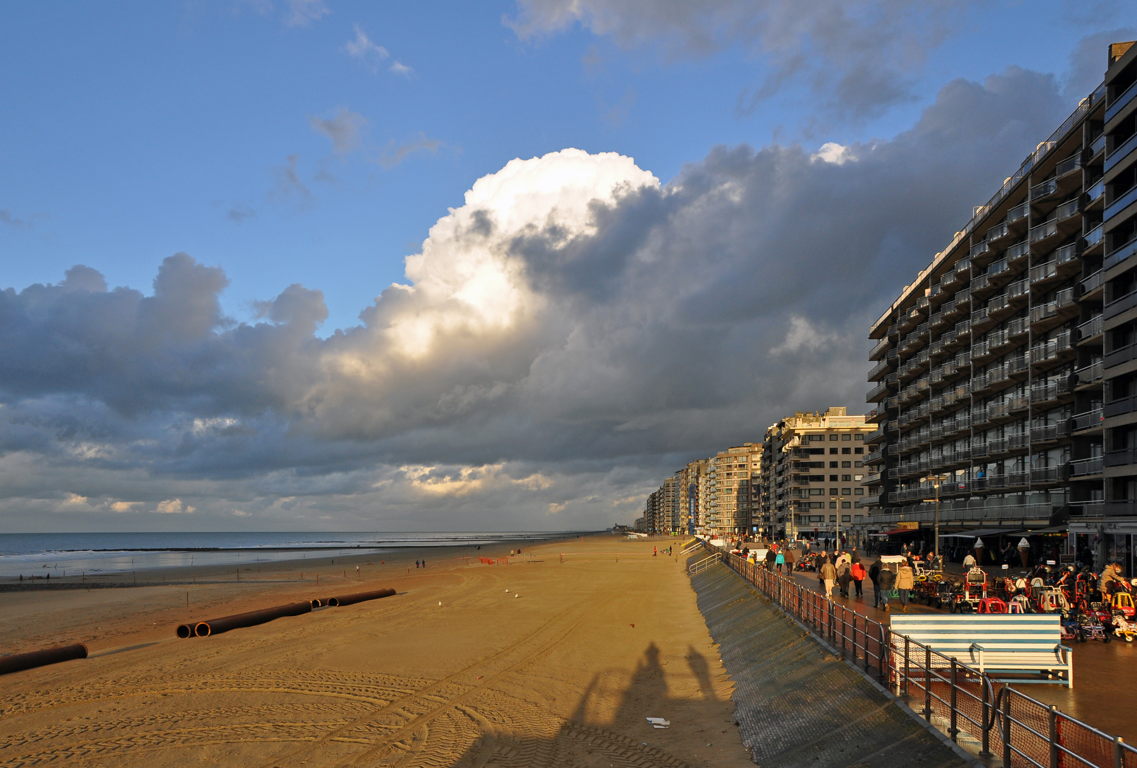 Westende (Middelkerke, Belgium): the beach in October